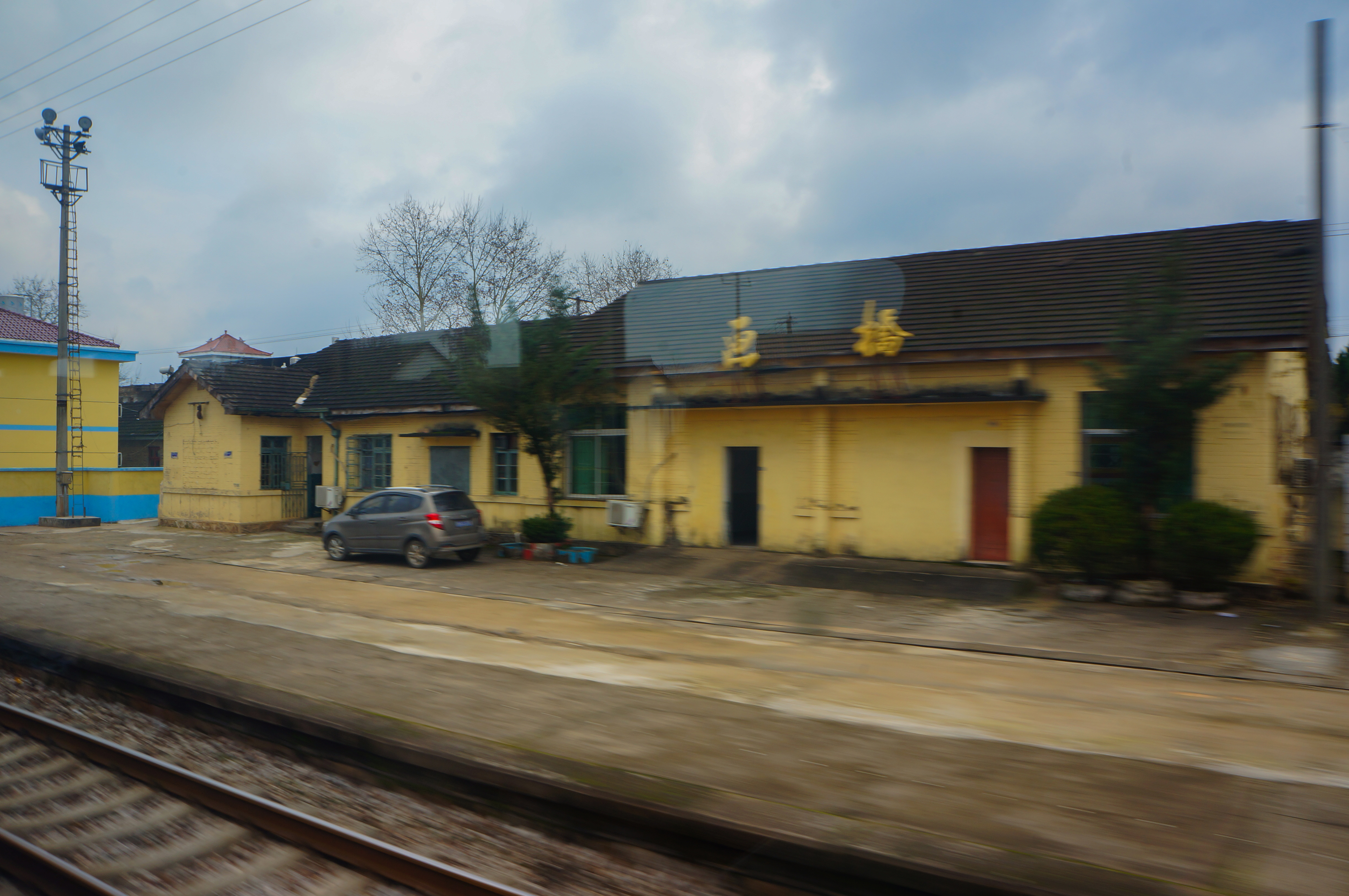 201612 Huaqiao Station